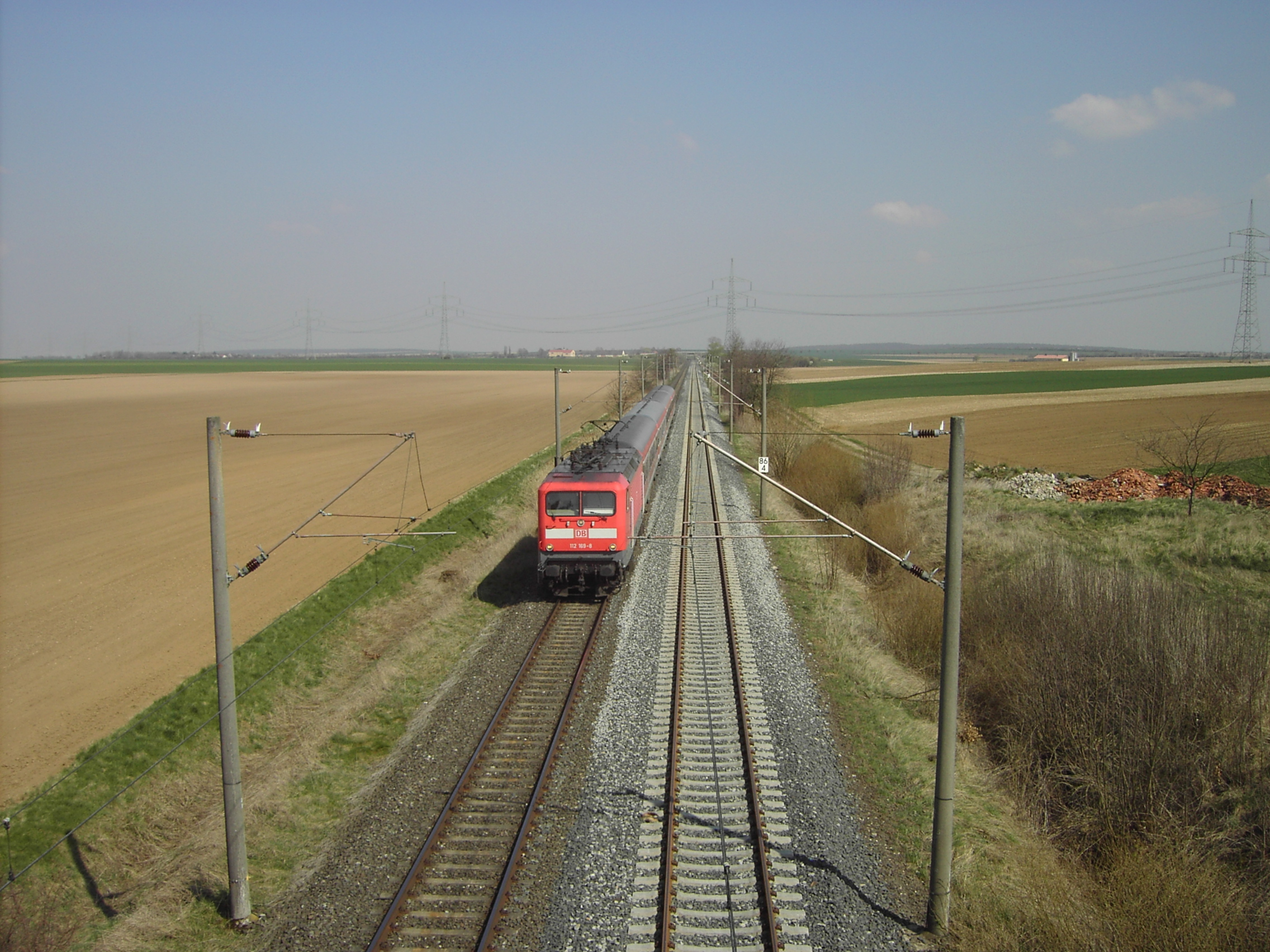 A regional train from Schweinfurt to Würzburg between Seligenstadt (near Würzburg) and Rottendorf.